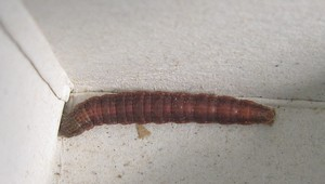 Ophiusa legendrei caterpillar - length approx. 2 cm Found on a Schinus terebinthifolius in Réunion